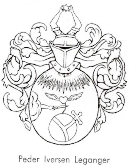 Peder Iversen Leganger, county sheriff, Ytre and Indre Sogn, Norway